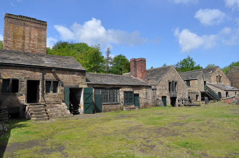 Abbeydale Industrial Hamlet, near to Beauchief, Sheffield, Great Britain. The crucible furnaces are to the left, tilt hammer buildings and finishing shops to the right.